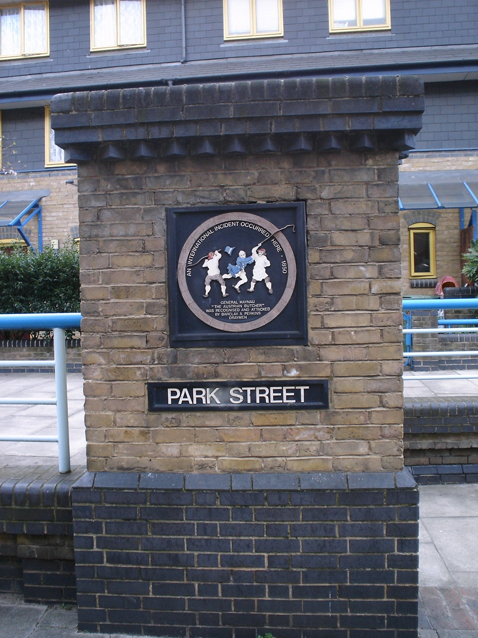 Plaque in Park Street, Southwark, London SE1, commemorating the "international incident" when two draymen attacked the infamous General Julius Jacob von Haynau at the Anchor Brewery.